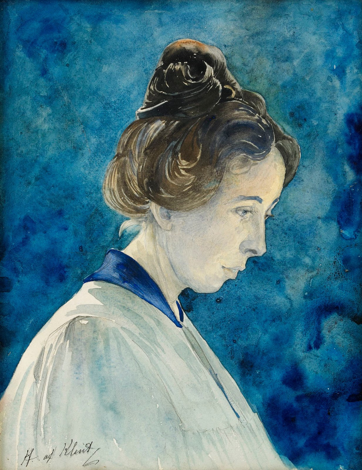 Hilma af Klint: Self Portrait